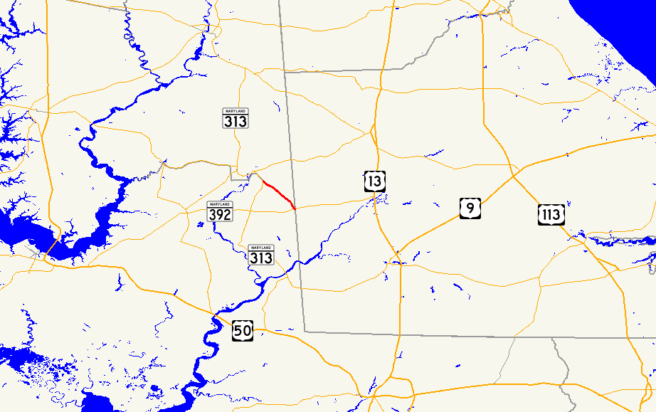 Map of Maryland Route 577